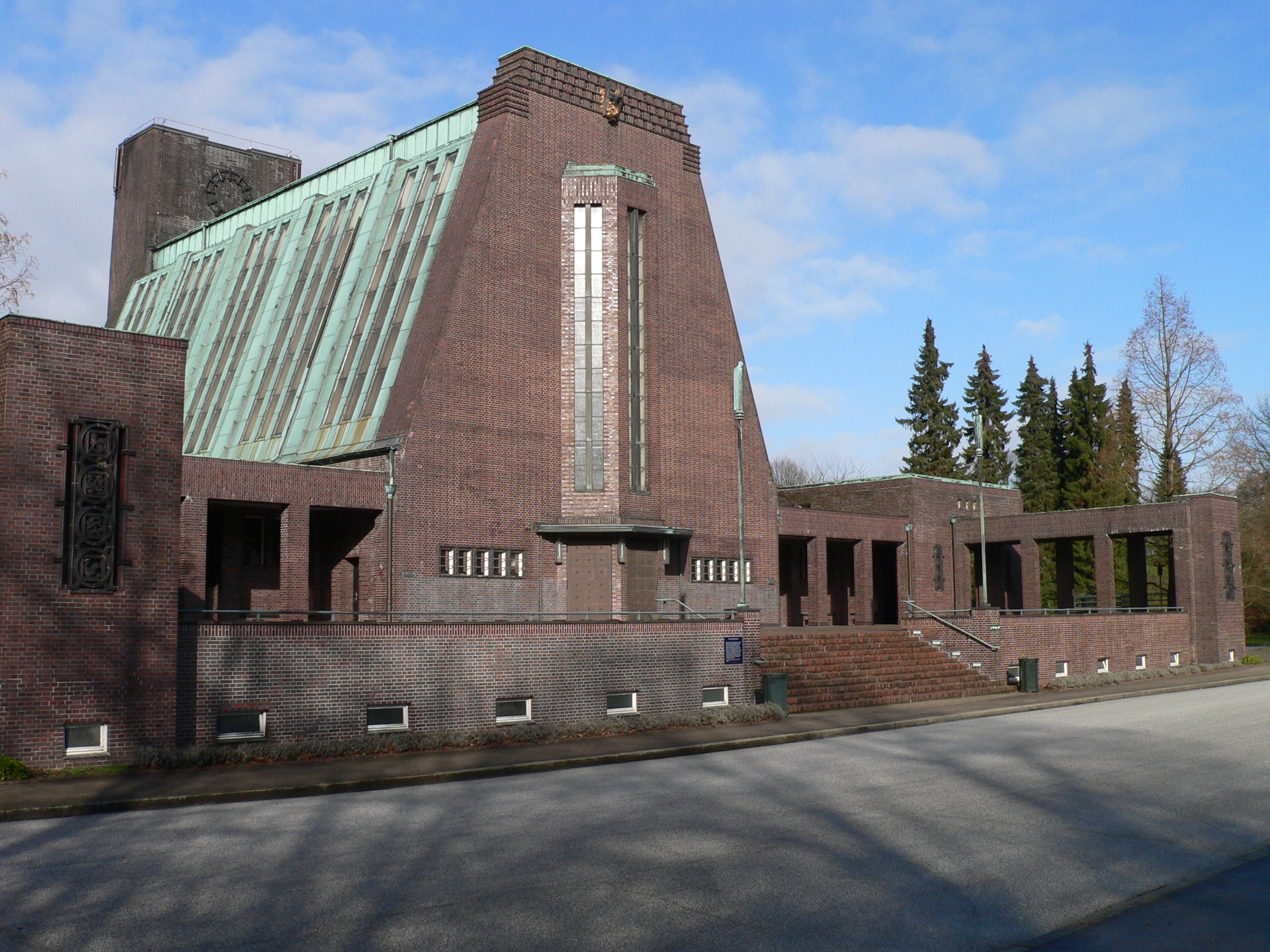 Crematory Hamburg Ohlsdorf